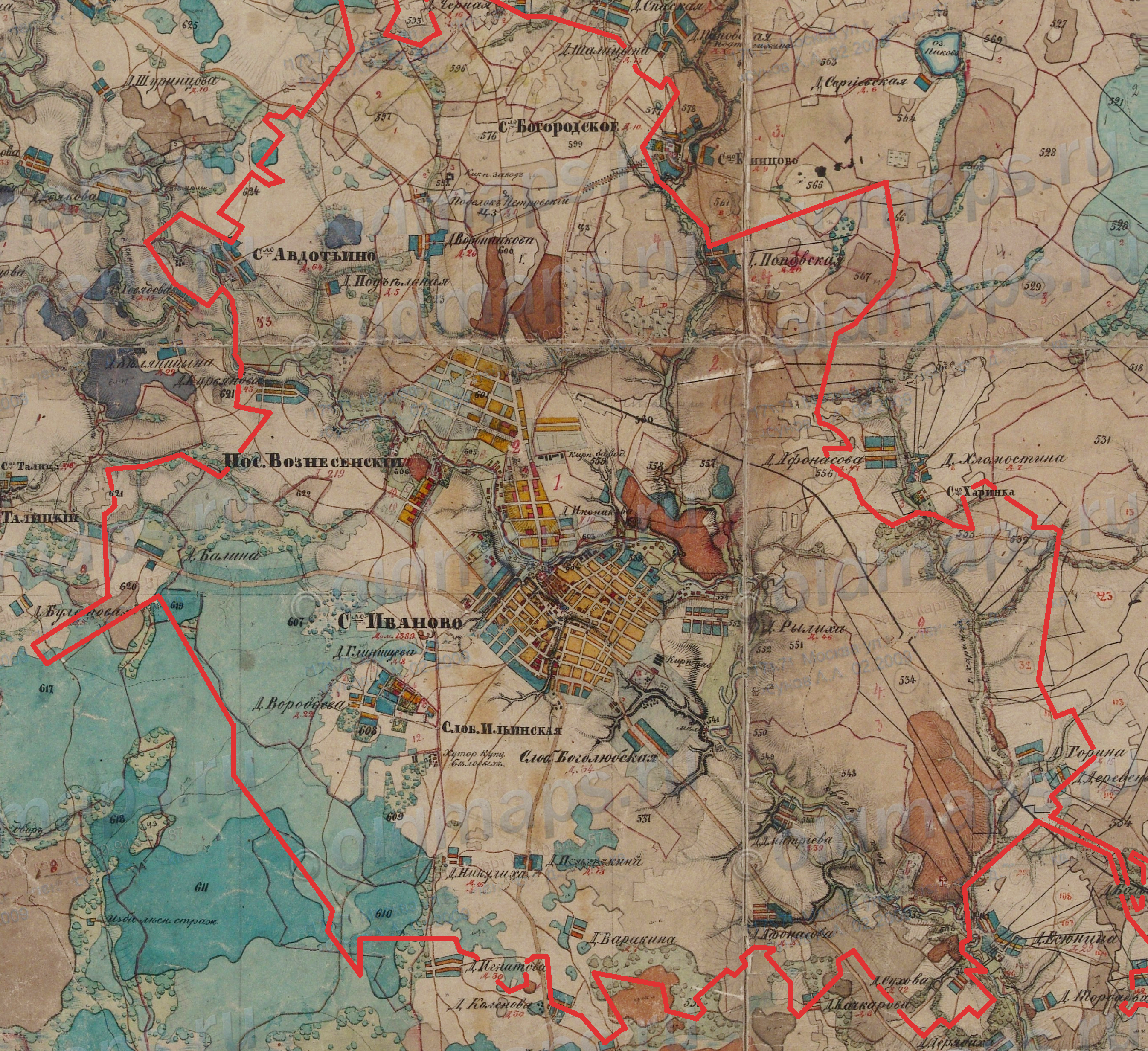 Map of Ivanovo in the 19th century. Red lines shows the borders of modern city